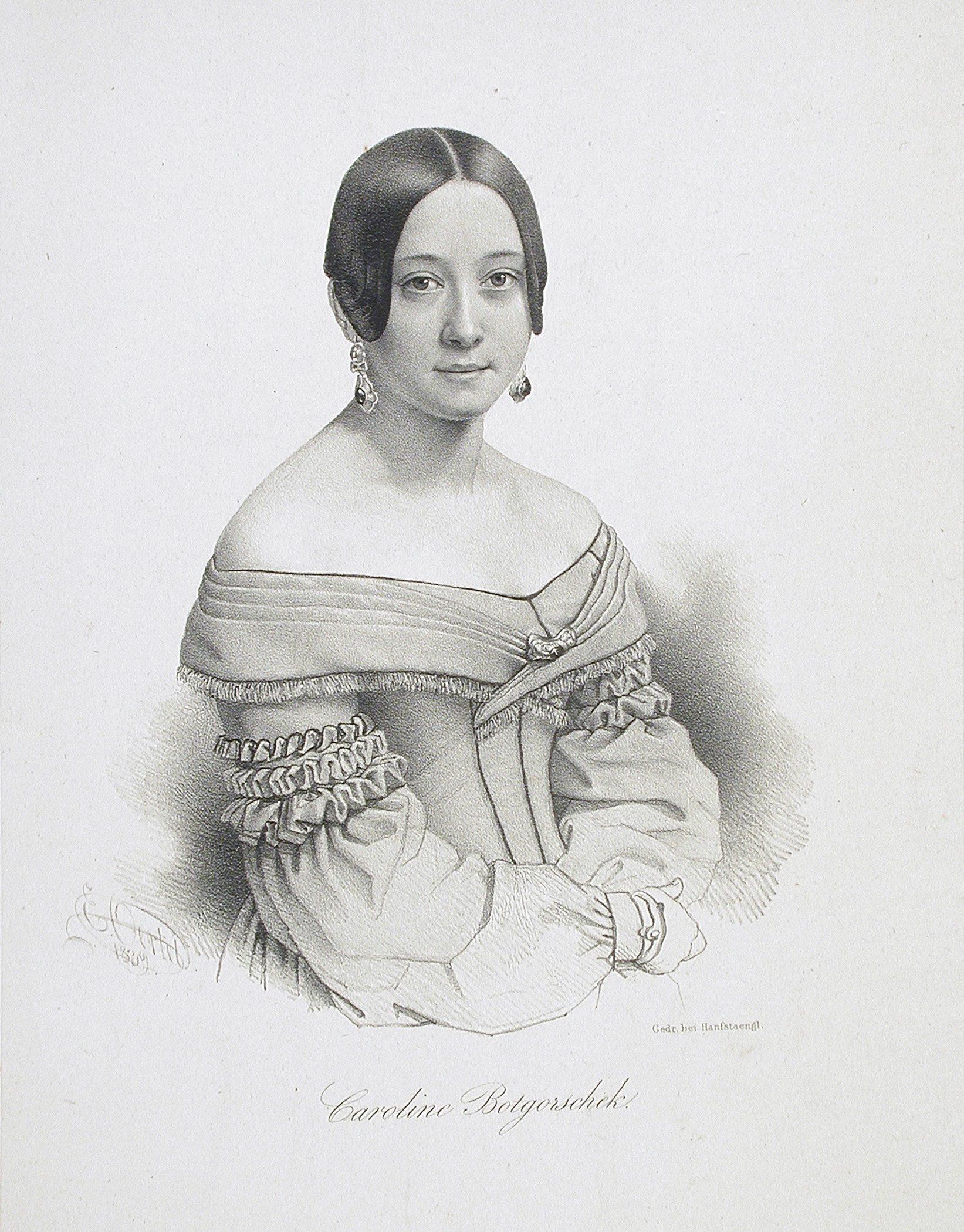 Germany, 1839 Prints; lithographs Lithograph Gift of Mrs. Irene Salinger in memory of her father, Adolph Stern (54.89.135) Prints and Drawings